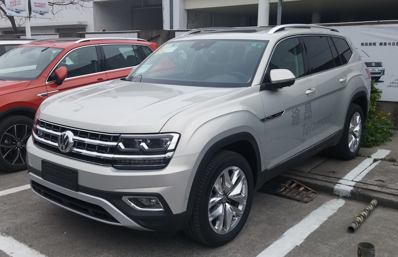 Volkswagen Teramont photographed in Shanghai, China.